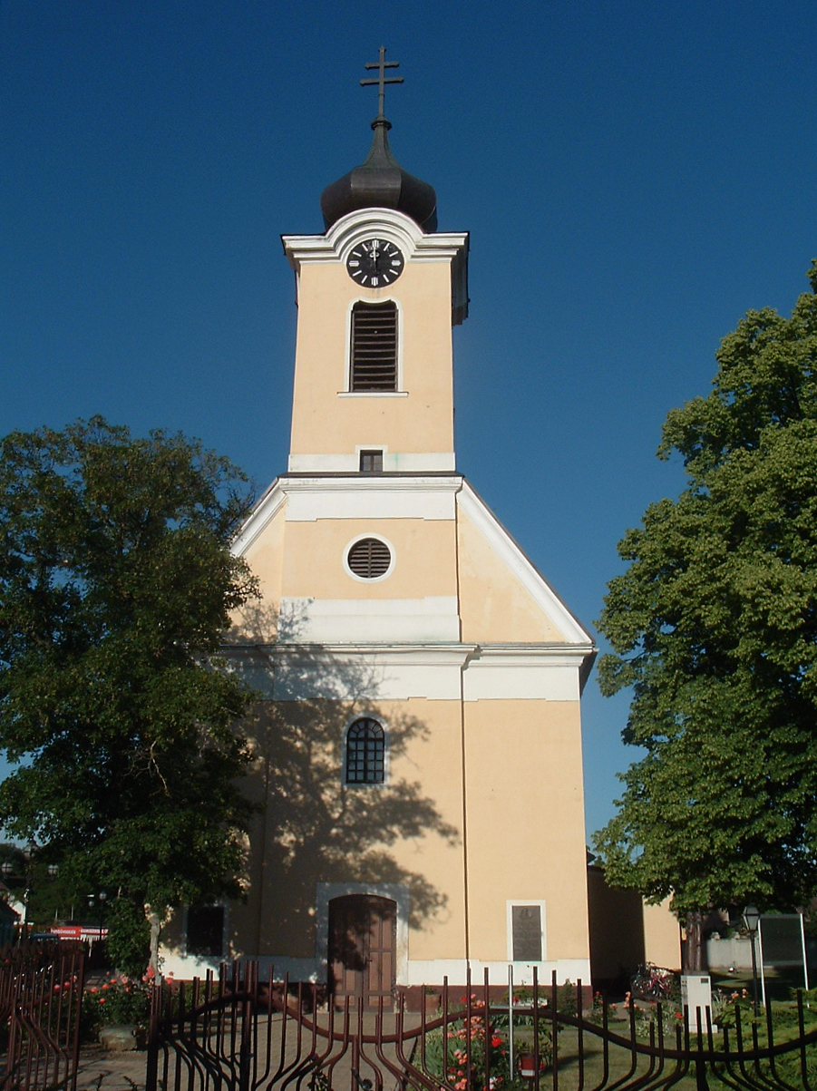 Körmend catholic church